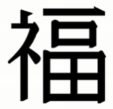 福 U+FA1B variant of 福 U+798F